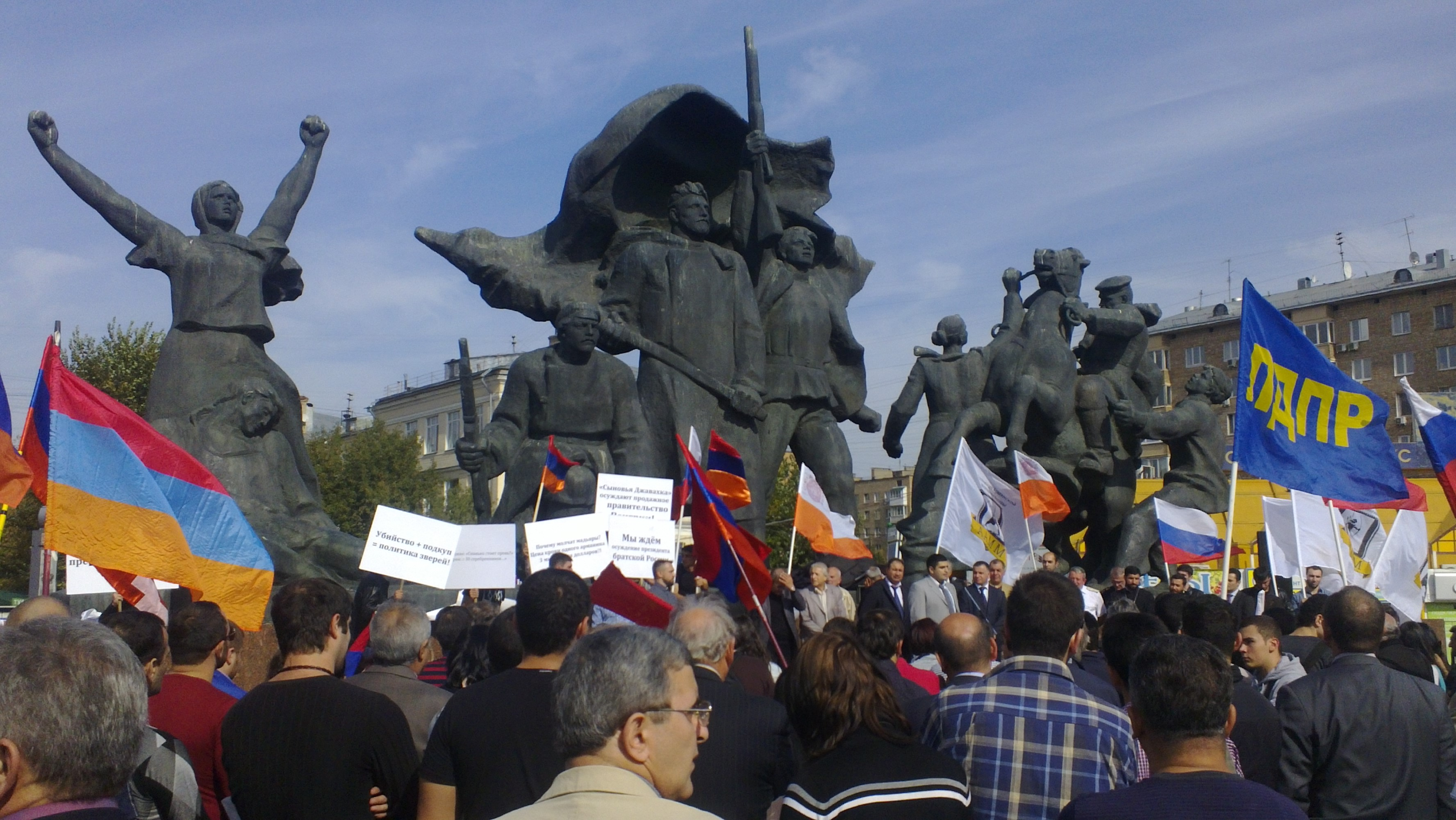 Protest against extradition and pardon of Ramil Safarov, Krasnopresnenskaya Zastava, Moscow, Russia, September 14 2012.